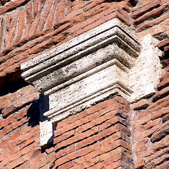 Roman tuscanic capital in the Trajan's Market in Rome (II AD)